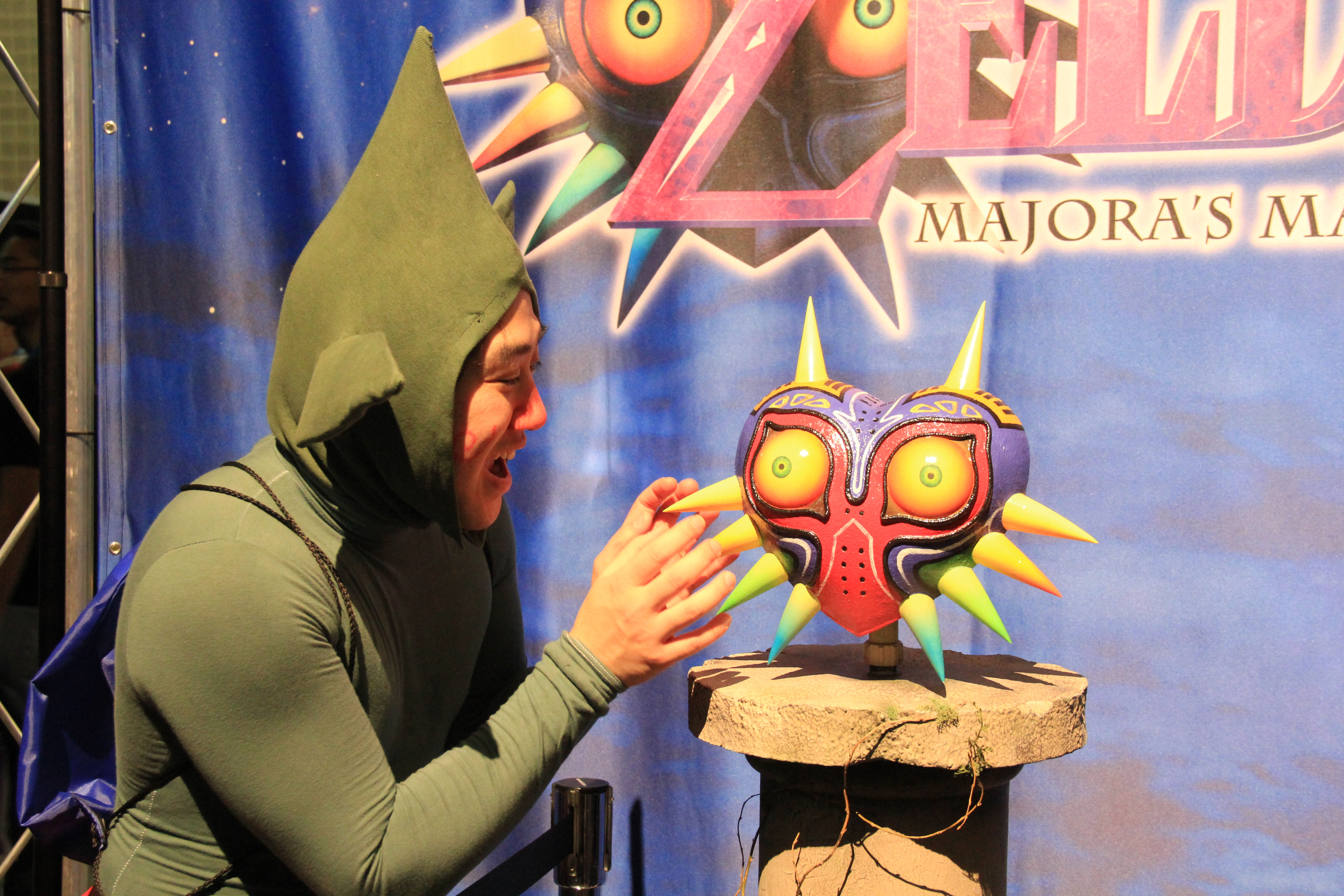 Tingle and Majora's Mask Taken on day 2 or 3 of PAX South 2015.